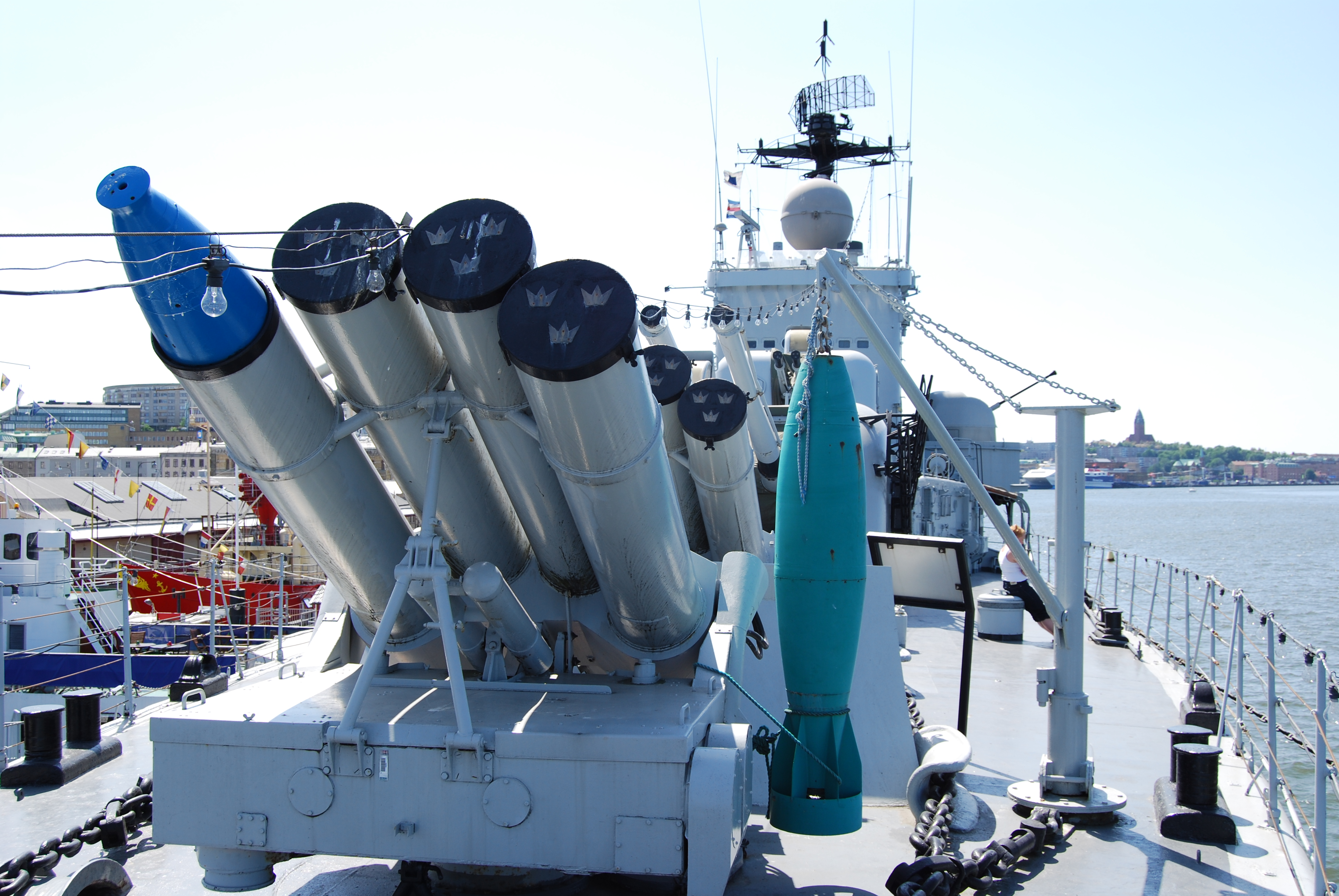 Anti-submarine weapons on the Swedish destroyer HMS Småland.